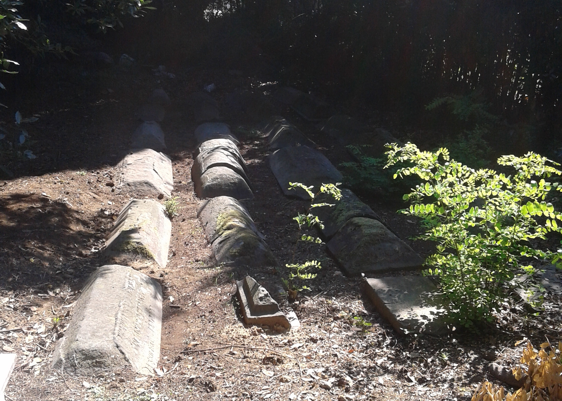 Tombstones from the Jewish cemetery in Portoferraio transferred to Livorno Lupi cemetery in 1964